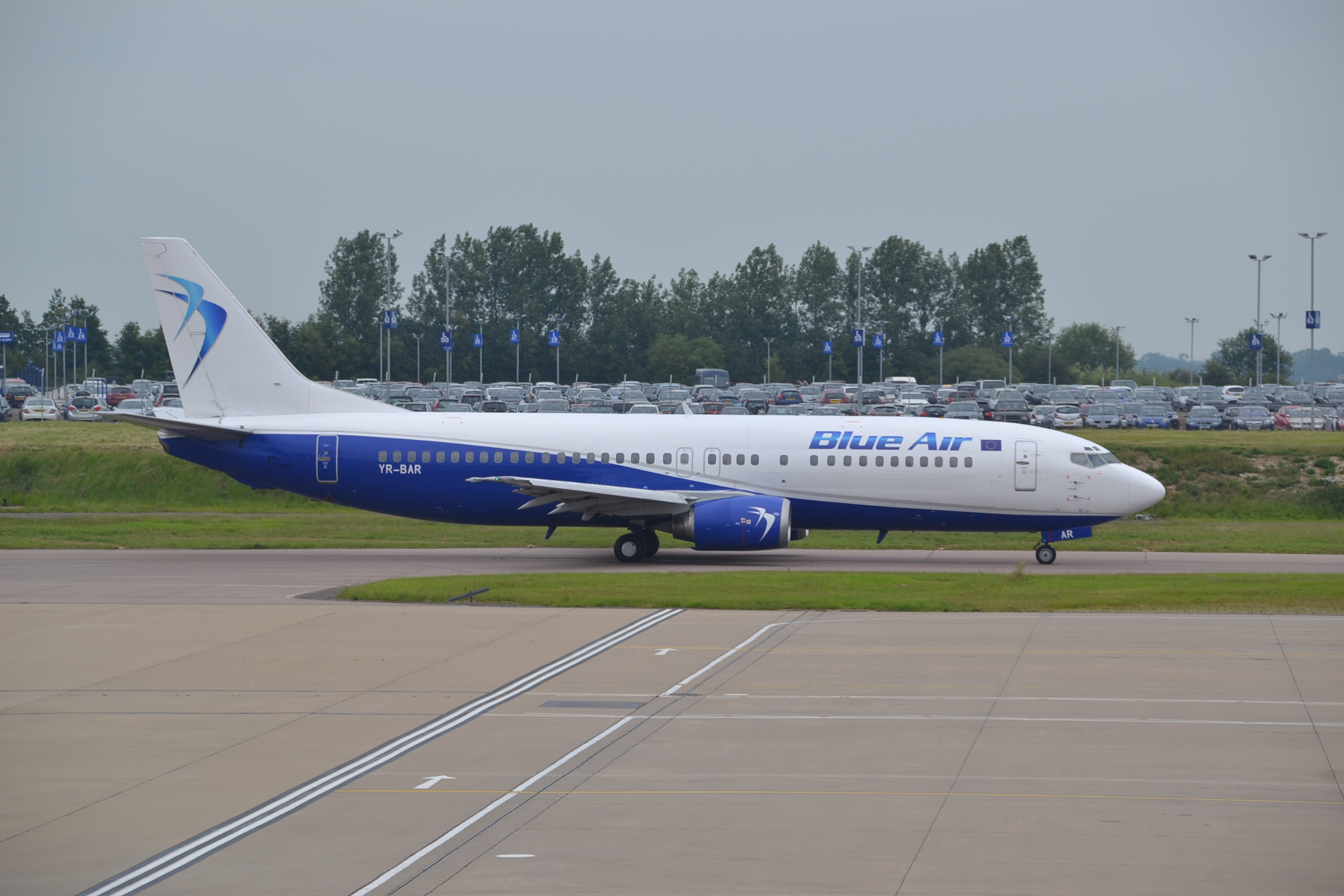 Boeing 737/4 of Blue Air at Luton-LTN,19/06/14.